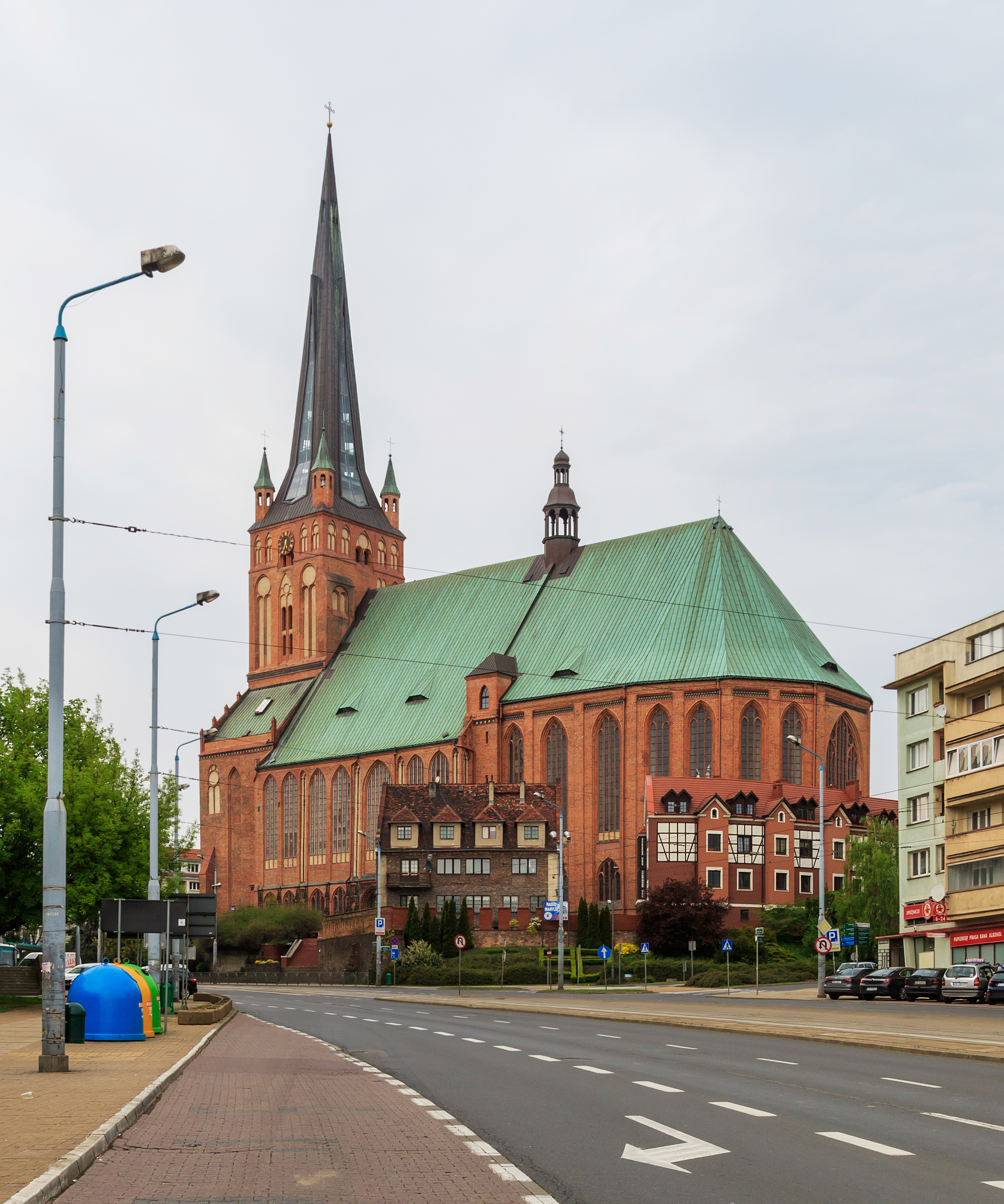 St. James Cathedral in Szczecin (Poland)